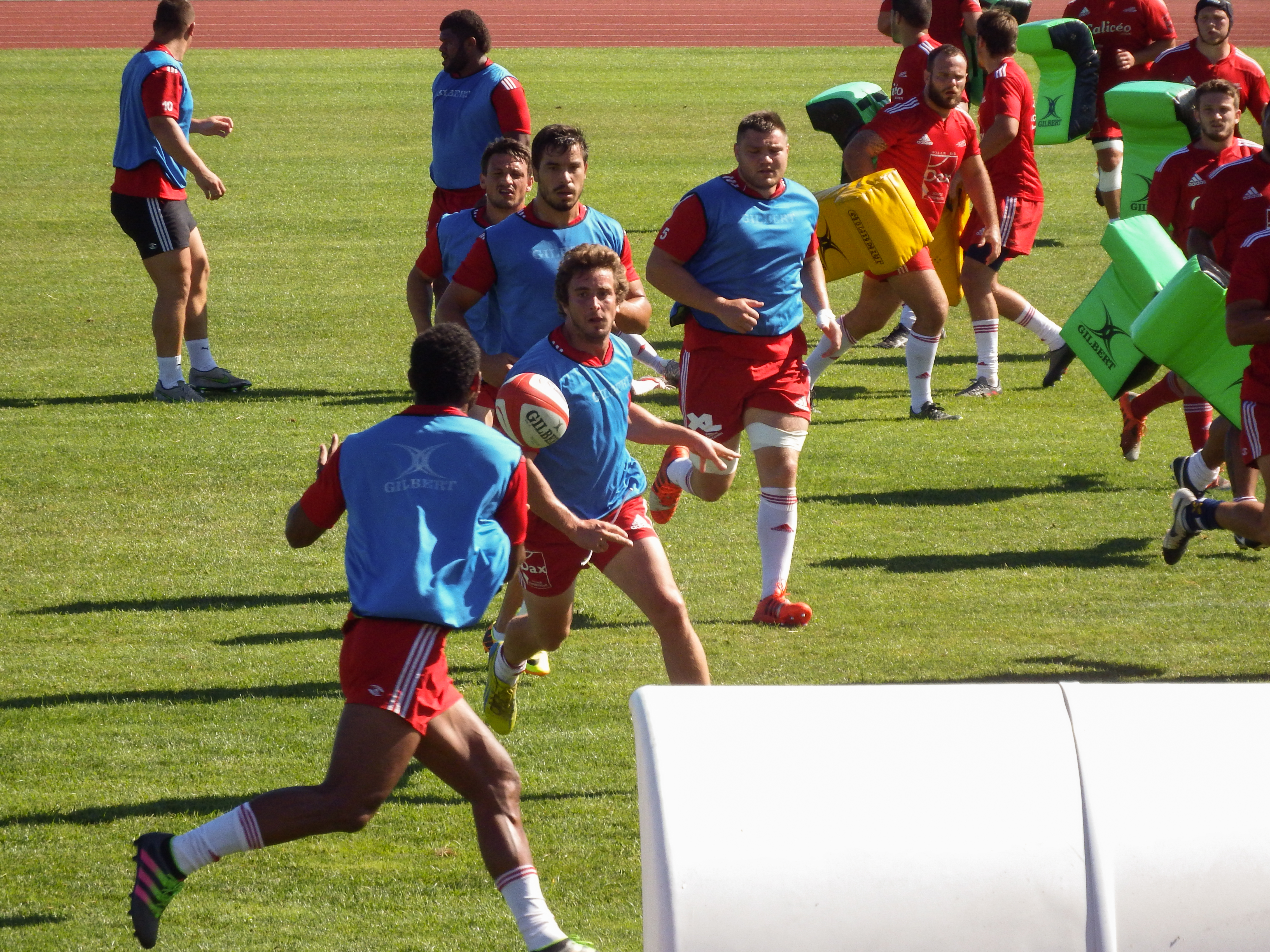 Rugby union training — 6 August 2016, stade Colette-Besson. Match between: US Dax — US Dax